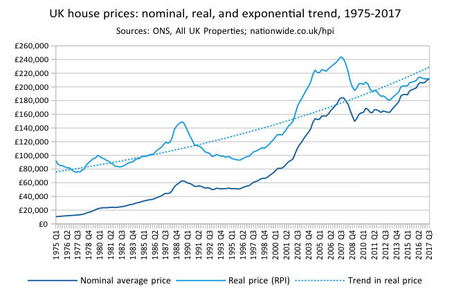 UK house prices. Nominal, real, and exponential trend, 1975 to 2017. The nominal price is the actual price in pounds at any given time. The real price is the nominal price adjusted for Retail Price Index inflation, following Office for National Statistics. The trend line is constructed according to the real price. Data comes from the ONS, All UK Properties series, and which itself draws on the ONS.